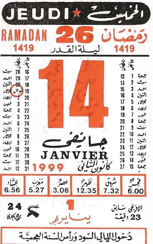 a Tunisian calendar page: Yennayer 1st = January, 14th